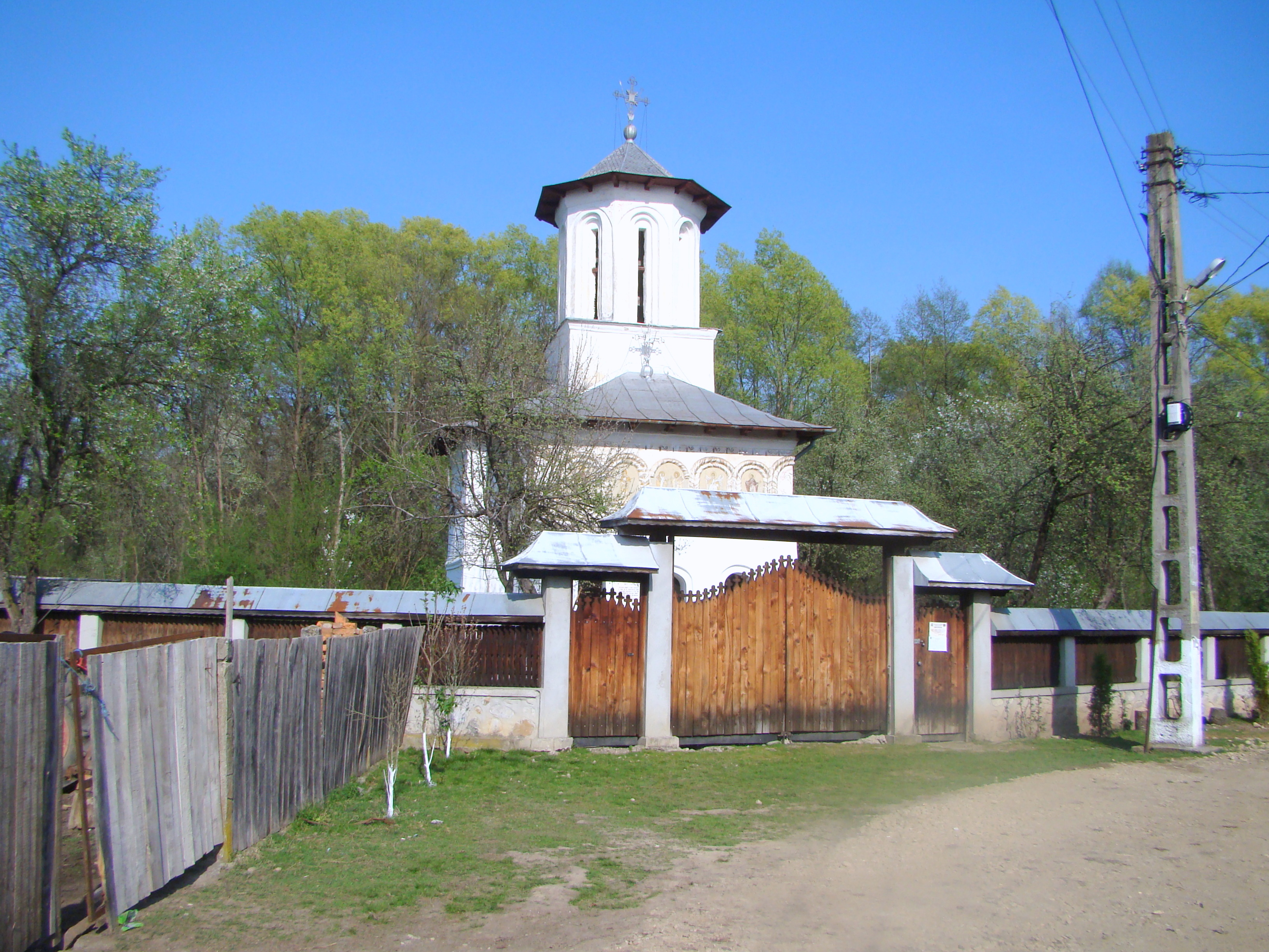 Saint Nicholas church in Brădiceni, Gorj county, Romania